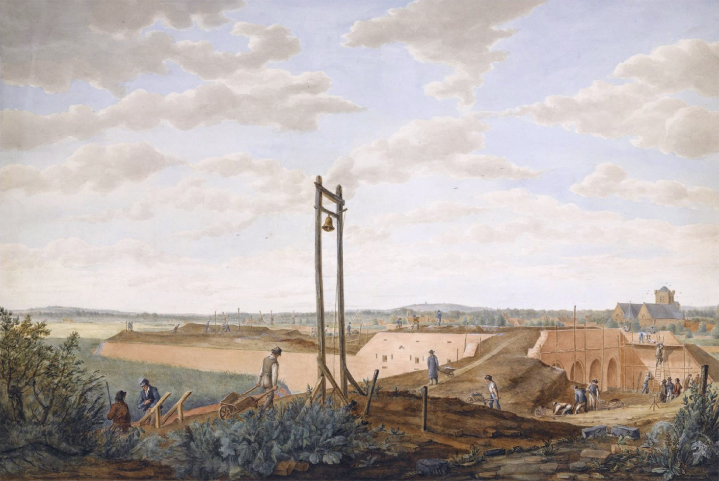 The rebuilding of the horn-work of Antwerp, Ieper 1824 53.2 x 73.4 cm. signed l.r. watercolour over pencil on paper